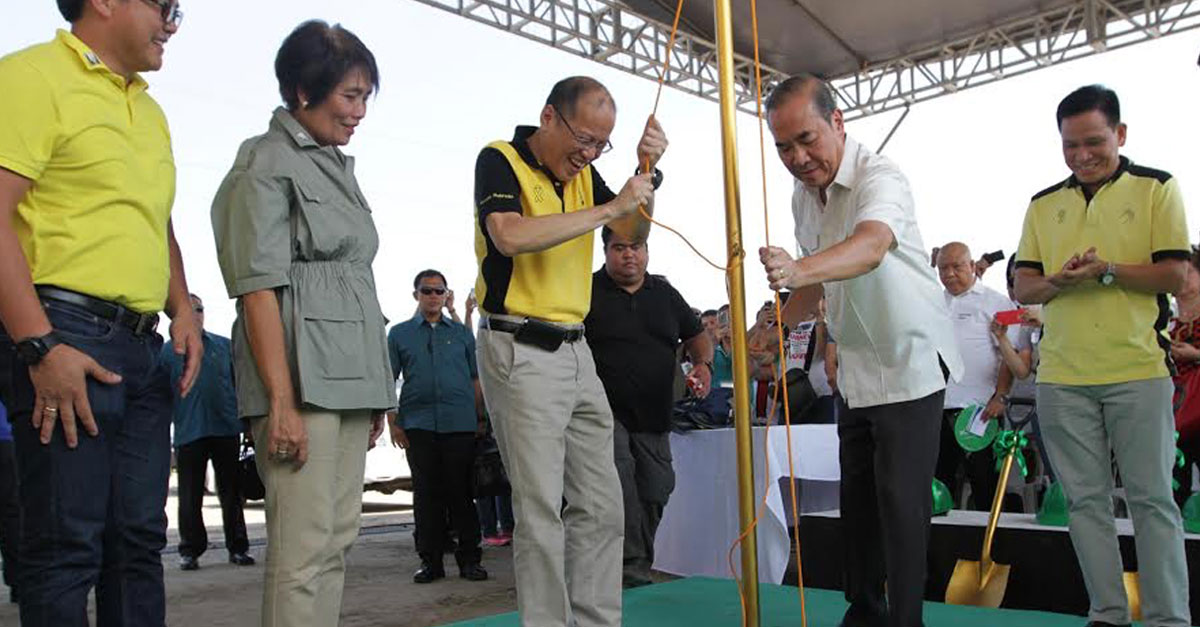 Groundbreaking ceremony for the Clark Green City development led by President Benigno Aquino III.